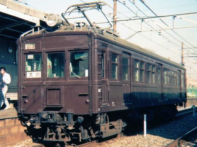 JR East KuMoHa 12 EMU car KuMoHa 12052 at Musashi-Shiraishi Station on the Tsurumi Line Okawa Branch